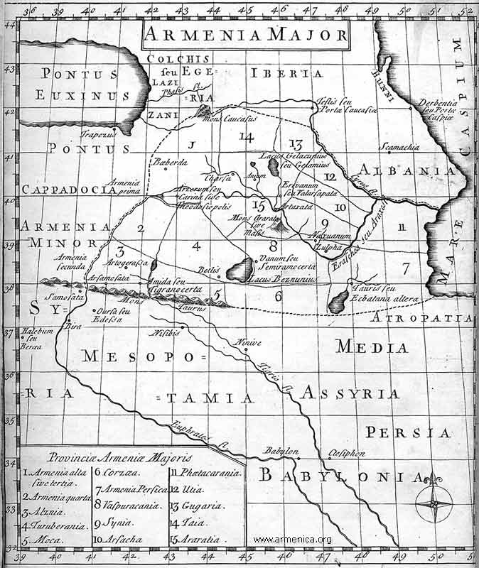 The map accompanies the printed text of the Latin and Armenian edition of Movses Khorenatsi's "History of Armenia", which also incorporates the geographical text called "Ashkharhatsouyts" (World Mirror) attributed here to Movses Khorenatsi. Latin translation is by William and George Whiston and the book was published in 1736, in London